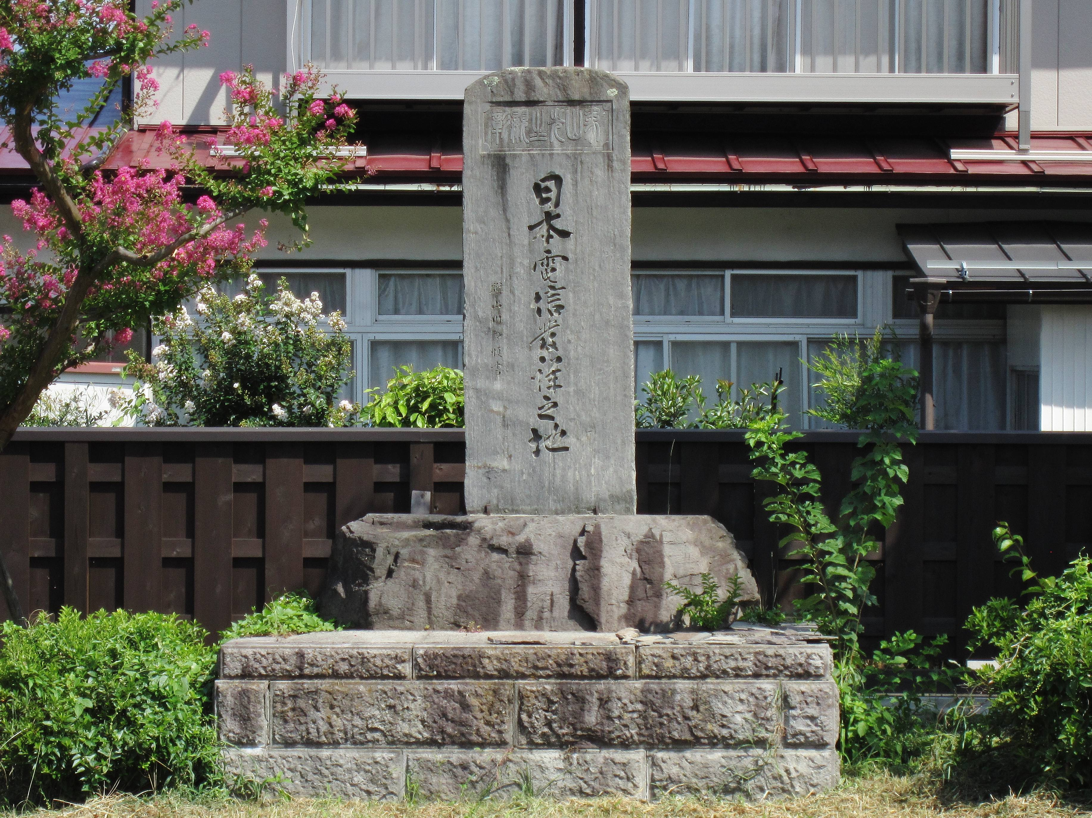 Japan electrical telegraph monument.